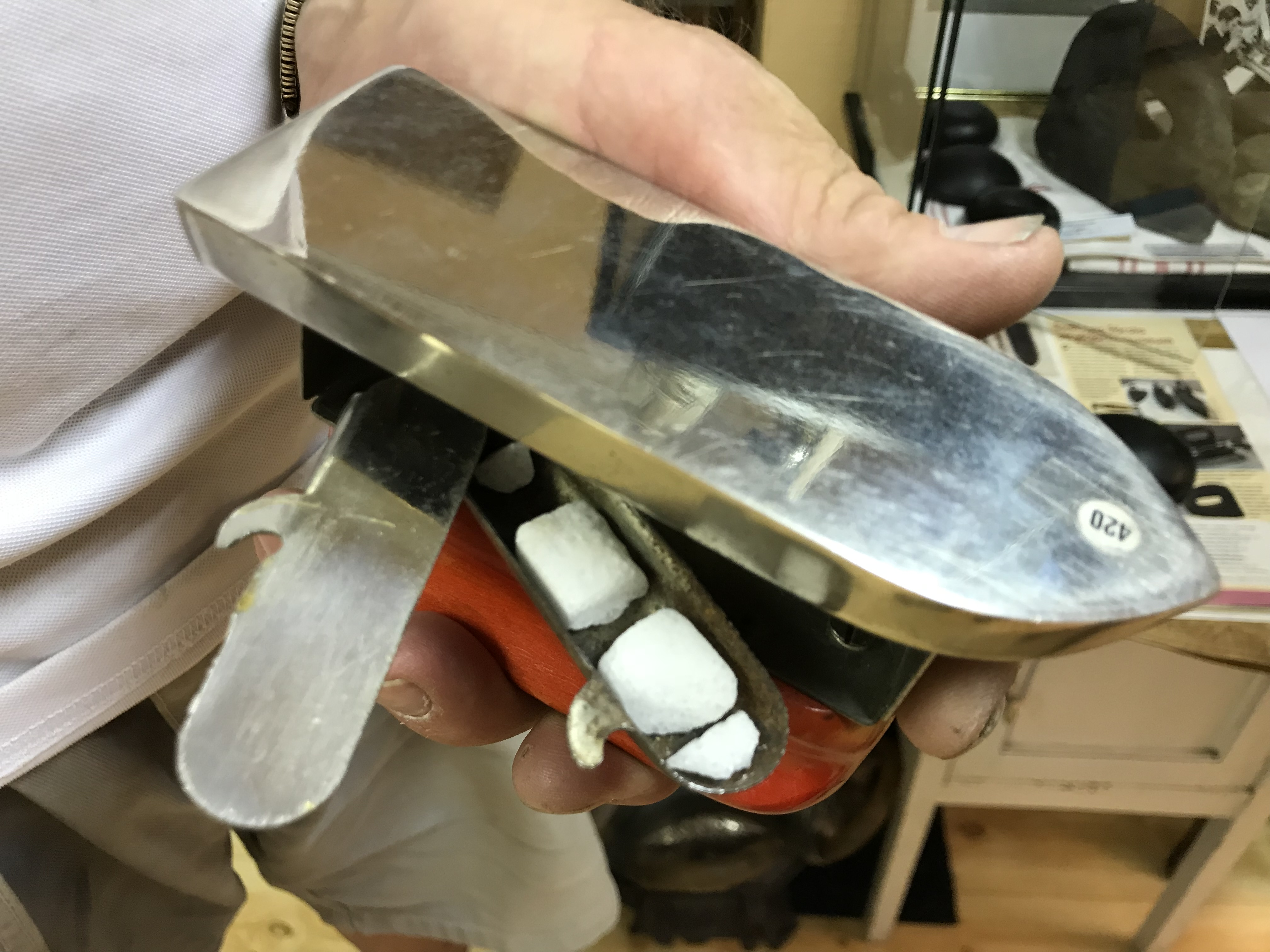 Travel iron from Strykjärnsmuseum, Iron museum, in Malmköping, Sweden, August 2, 2019